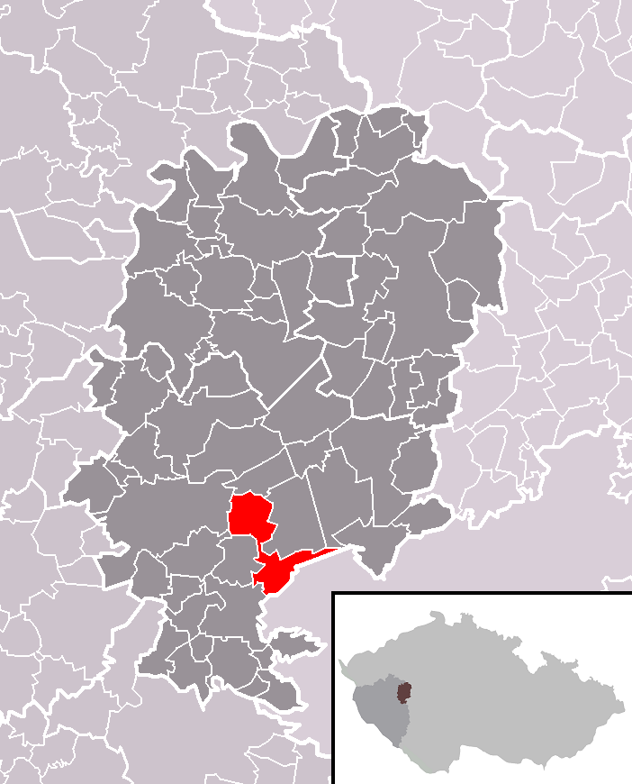 Location of Dobřív municipality within Rokycany District and within identical administrative area of Rokycany as a Municipality with Extended Competence.